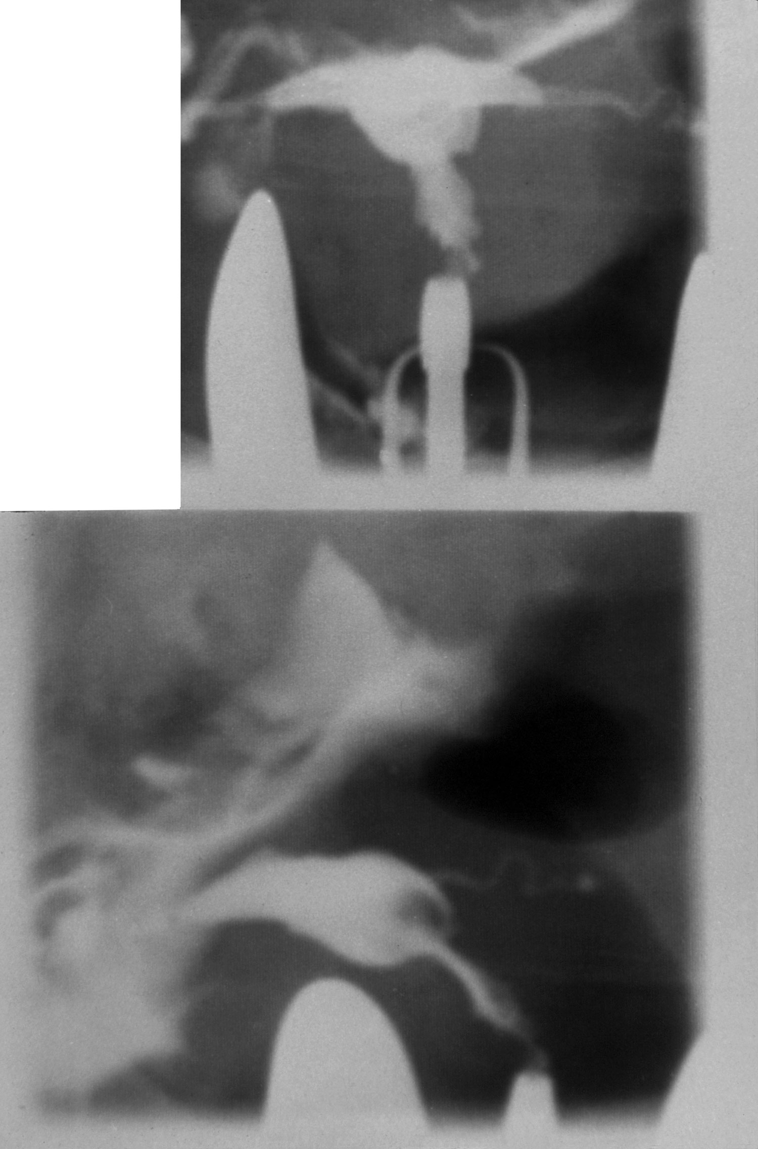 Title Diethylstilbestrol (DES) Cervix Description A T-shaped appearance of uterus with circular constriction noted around proximal portion of "horns" arrow). The lower uterus appears tapered and narrow. Topics/Categories Anatomy -- Gynecologic Cancer Types -- Cervical Cancer Cells or Tissue -- Abnormal Cells or Tissue Type B&W, Photo Source National Cancer Institute